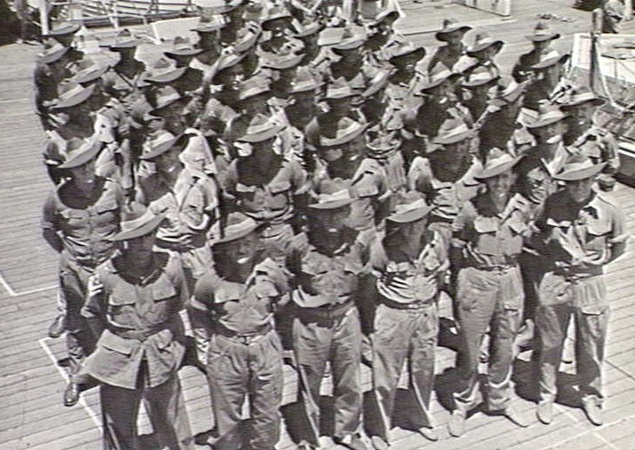 Ex prisoners of war from the Australian 2/4th Machine Gun Battalion on board the MV Highland Brigade, on their way home to Australia after the war.